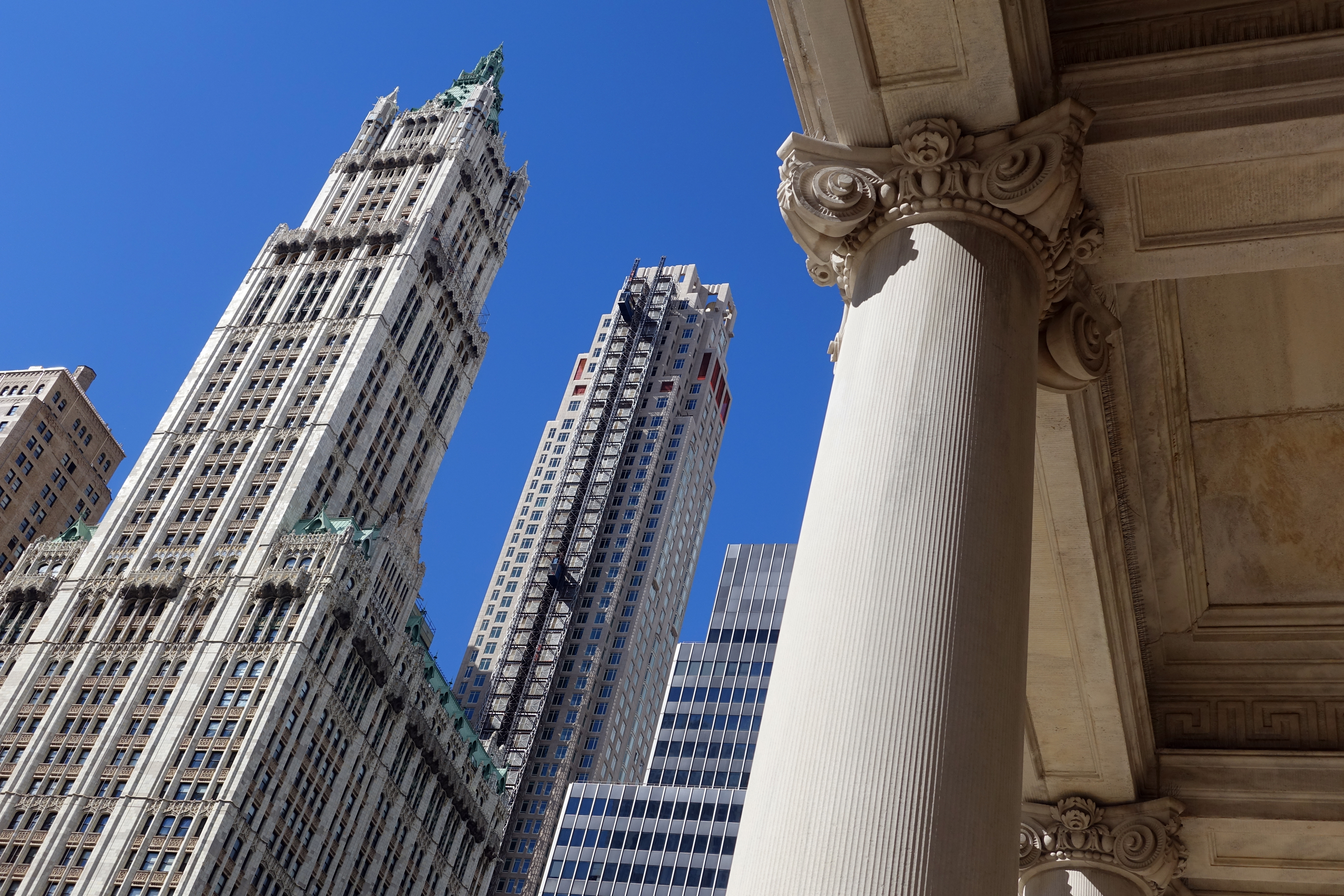 City Hall and the Woolworth Building Open House New YorkSite: City Hall